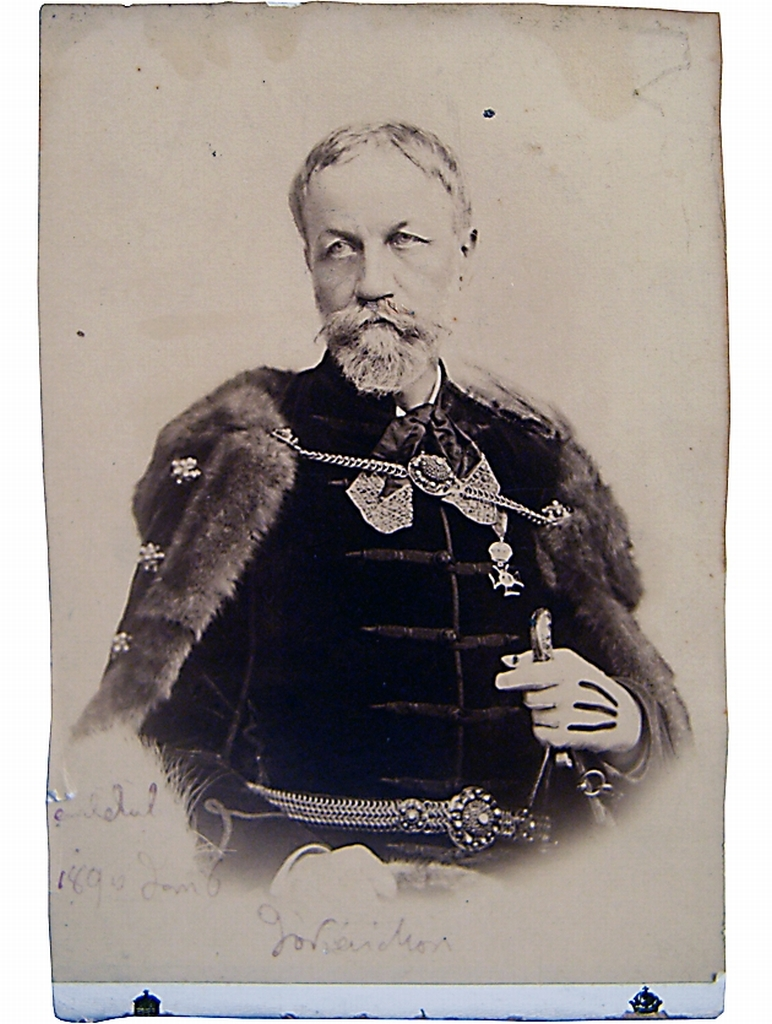 Mór Jókai de Ásva (1825–1904), Hungarian writer, member of the Kisfaludy Society and the Hungarian Academy of Sciences.